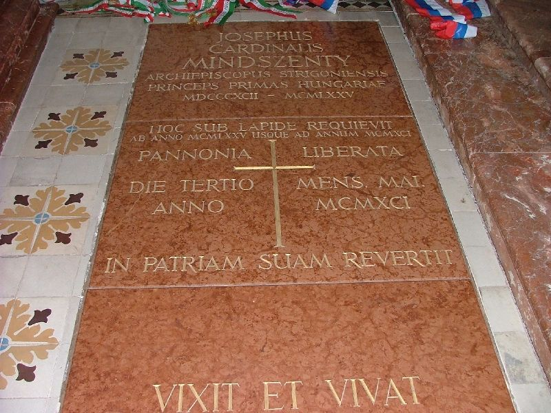 Author: Attila SZÉP Place: Mariazell, Österreich, The Grave of Cardinal Mindszenty Date: 20. May 2004